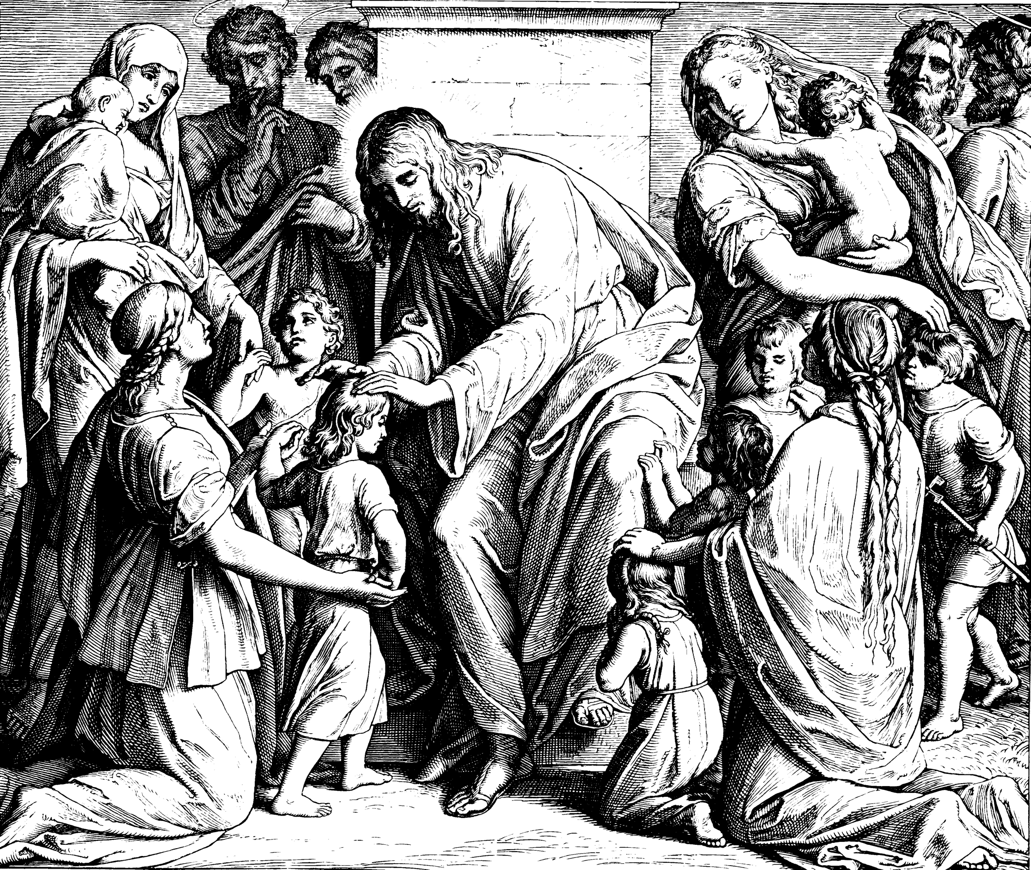 Woodcut for "Die Bibel in Bildern", 1860.